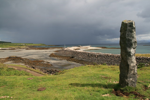 Eigg harbour and commemorative stone The stone was erected to mark the purchase of Eigg by The Isle of Eigg Heritage Trust on 12th June 1997.